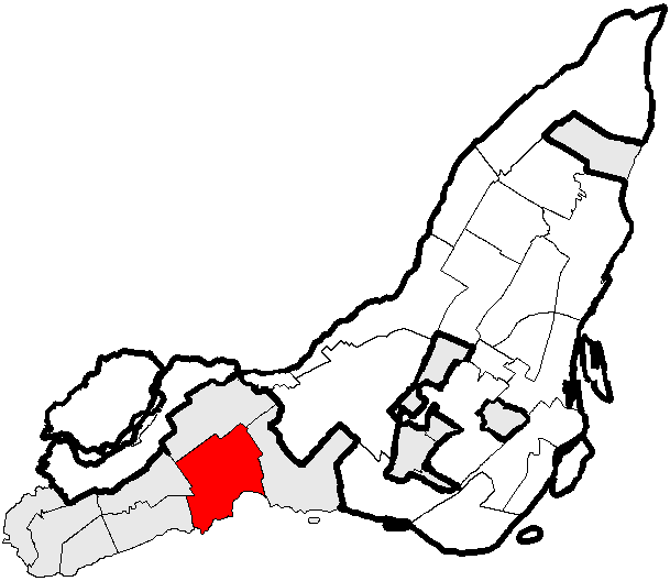 Location of Pointe-Claire, Quebec